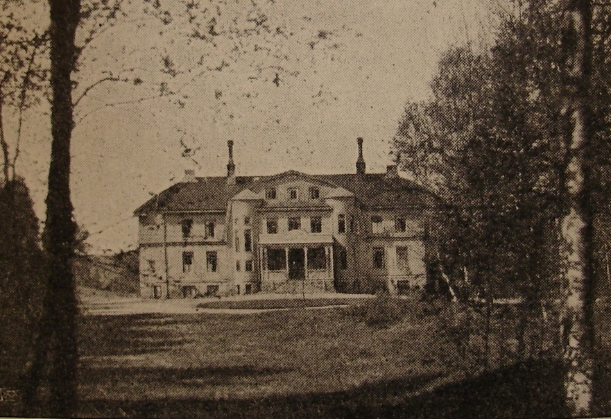 Sundsholms sanatorium 1918, STF årsbok